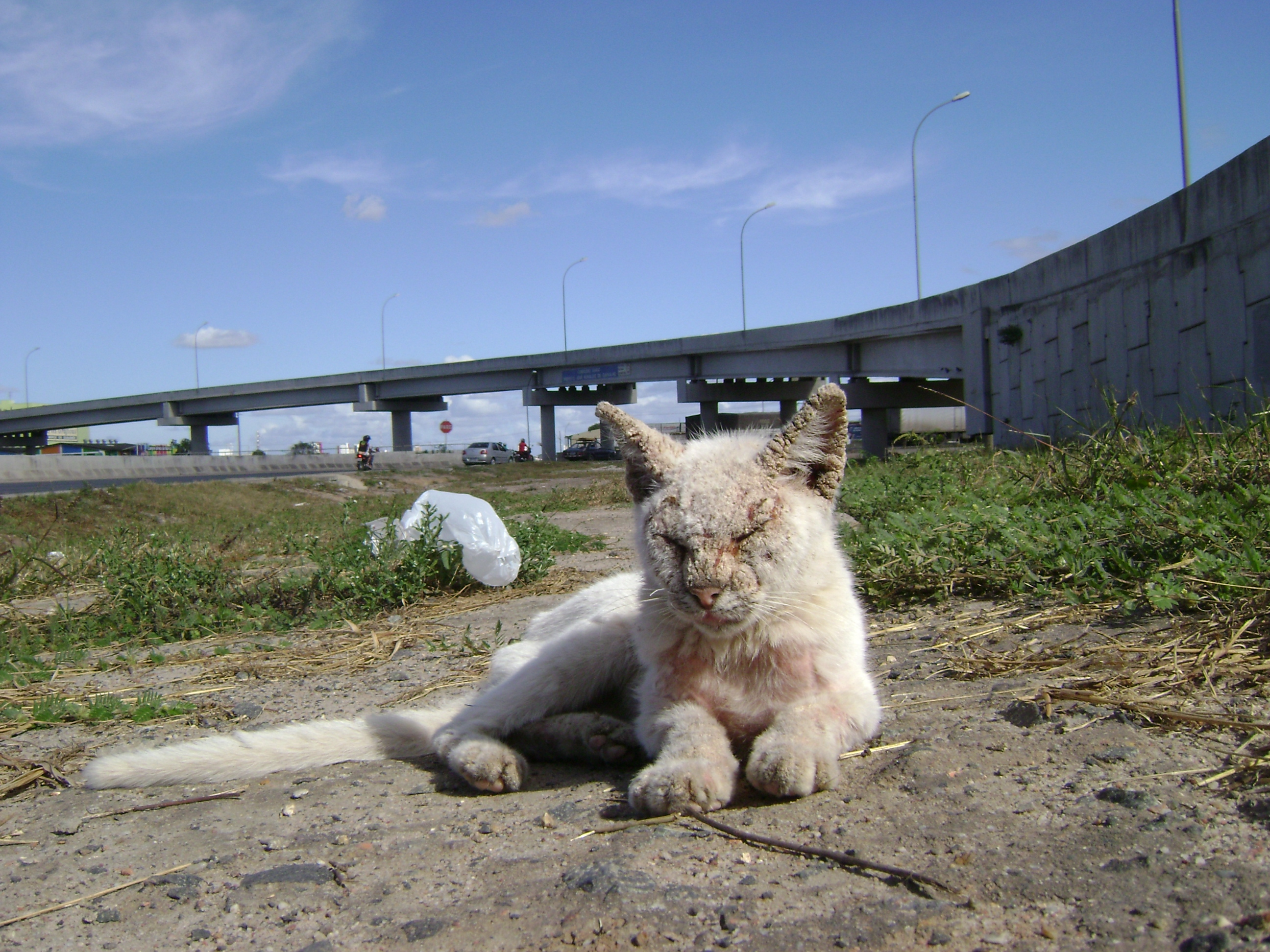 Abandoned cat (and apparently blind) in Highway Complex Prefeito José Ronaldo de Carvalho, in Feira de Santana, Bahia, Brazil, before I take her to my house and send her some days later to Zoonosis Control Center.